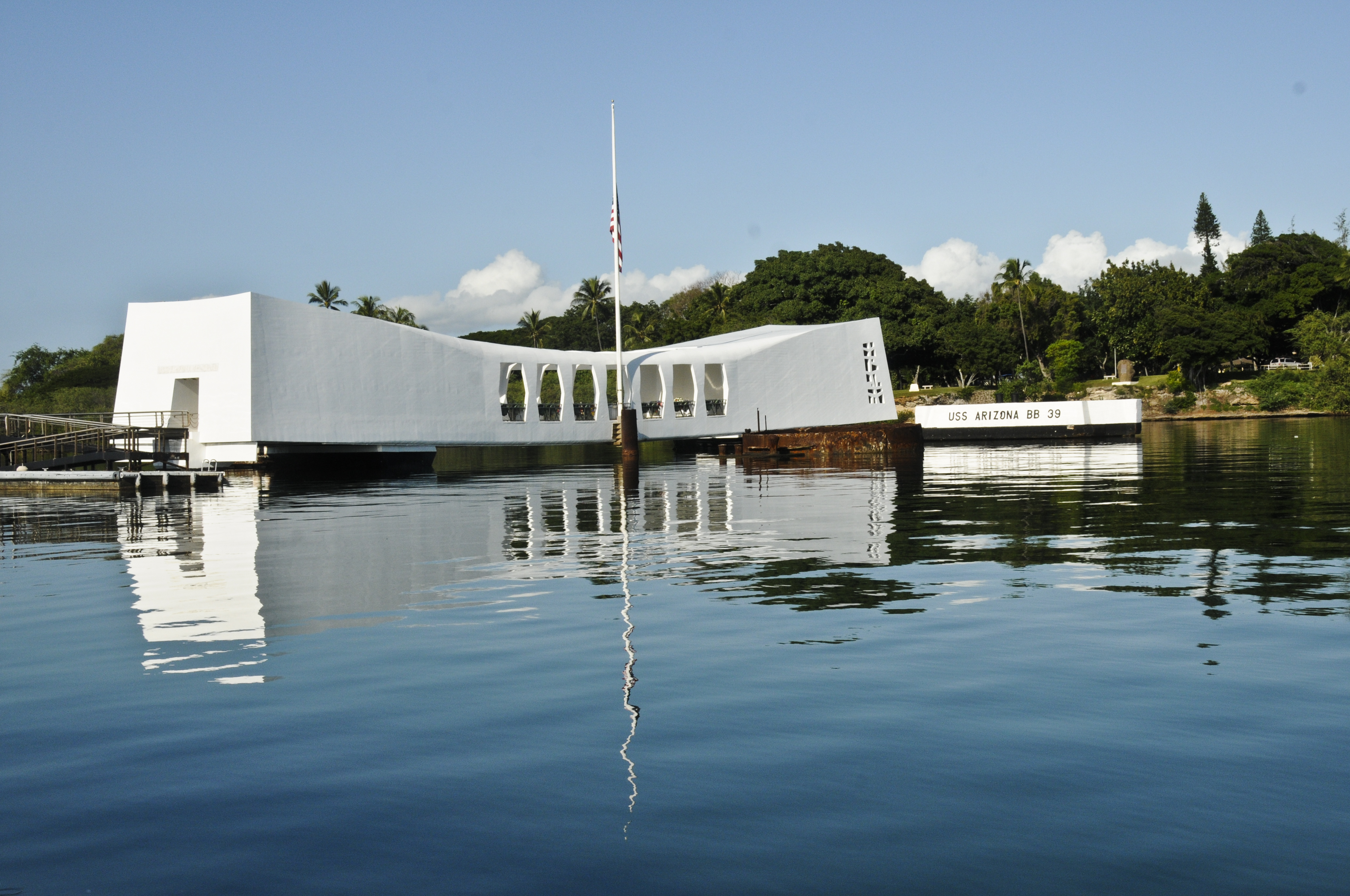 The USS Arizona Memorial sits over the remains of the USS Arizona in Pearl Harbor, Hawaii, Dec. 7, 2013. Every Dec. 7 since 1941, there have been wreaths placed in the remembrance of the sailors who died in the USS Arizona. (U.S. Army Photo by Spc. Jacob Kohrs/ Released)